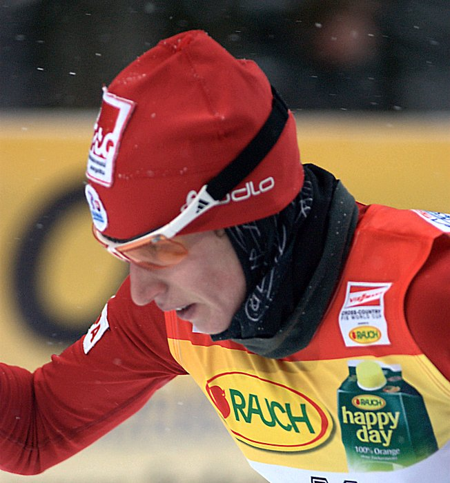 Alena Prochazkova at the Tour de Ski 2010 in Oberhof